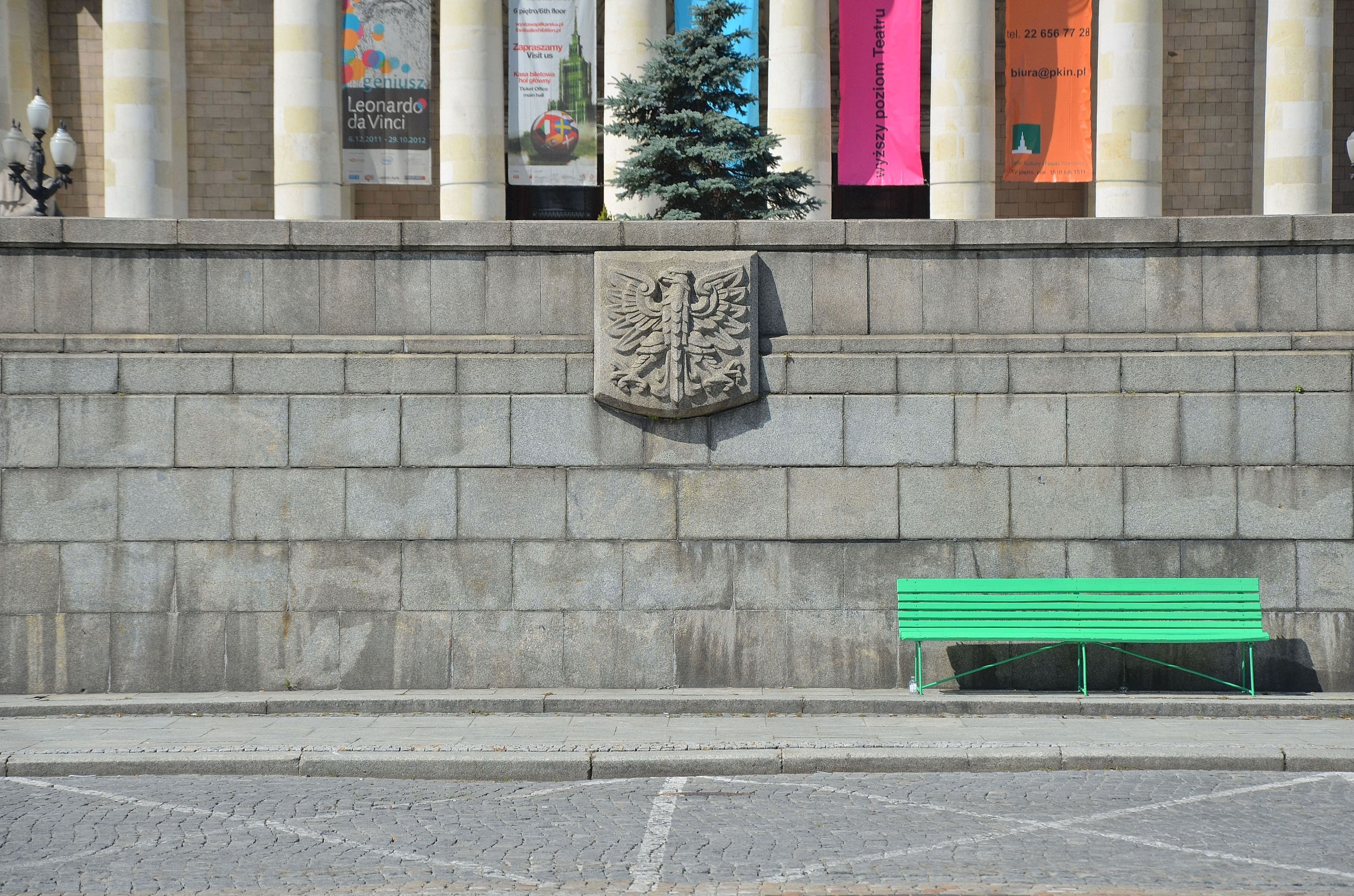 Tribune in the Parade Square in Warsaw